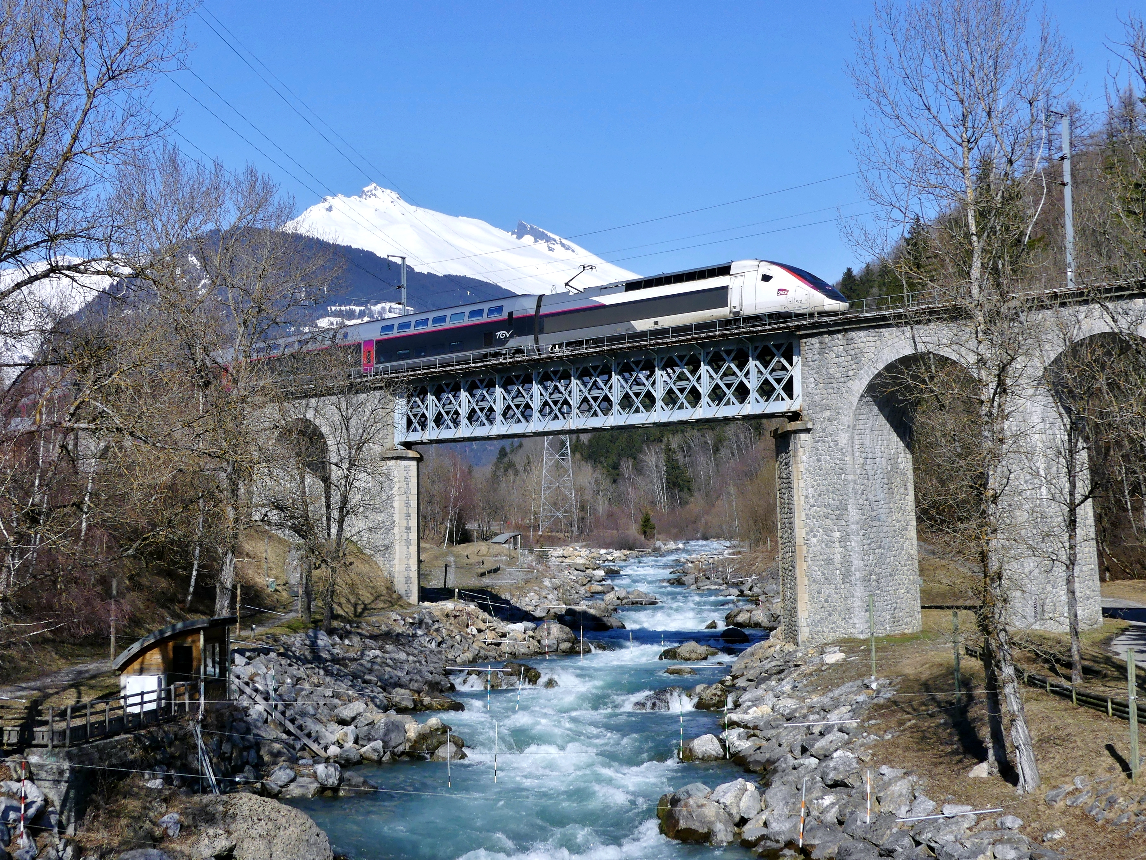 Sight of the French TGV on winter service n°6435 from Paris and crossing the Isère river, 1 km away from Bourg-Saint-Maurice, its terminus, in Savoie.